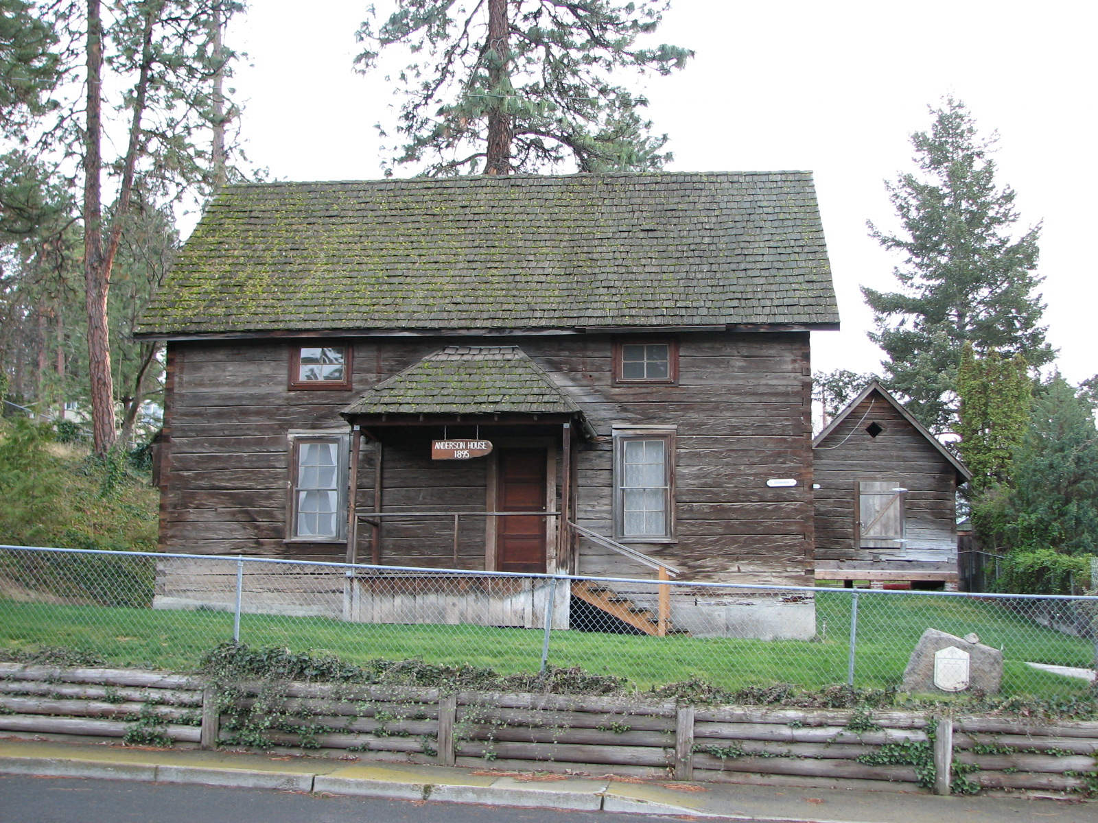 The Lewis Anderson House and Granary, today located at 508 West 16th Street in The Dalles, Oregon, United States, are listed on the US National Register of Historic Places. Originally located outside of The Dalles, they are now part of the Fort Dalles Museum.